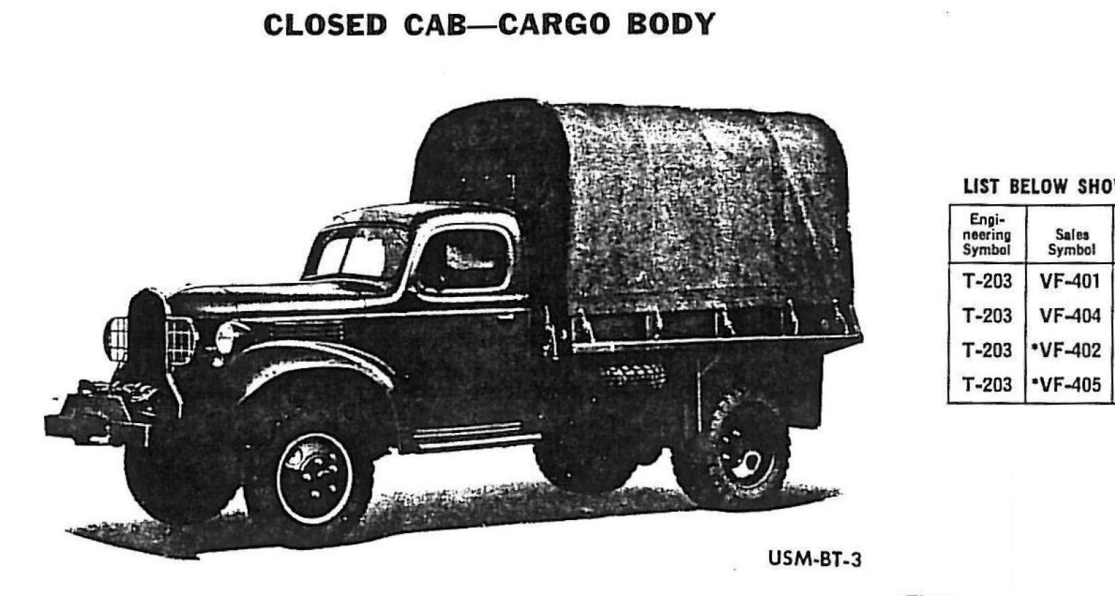 Dodge VF-401 / VF-402 / VF-404 / VF-405 1½-ton Closed Cab Cargo body truck (engineering code T-203; body type code USM-BT-3)